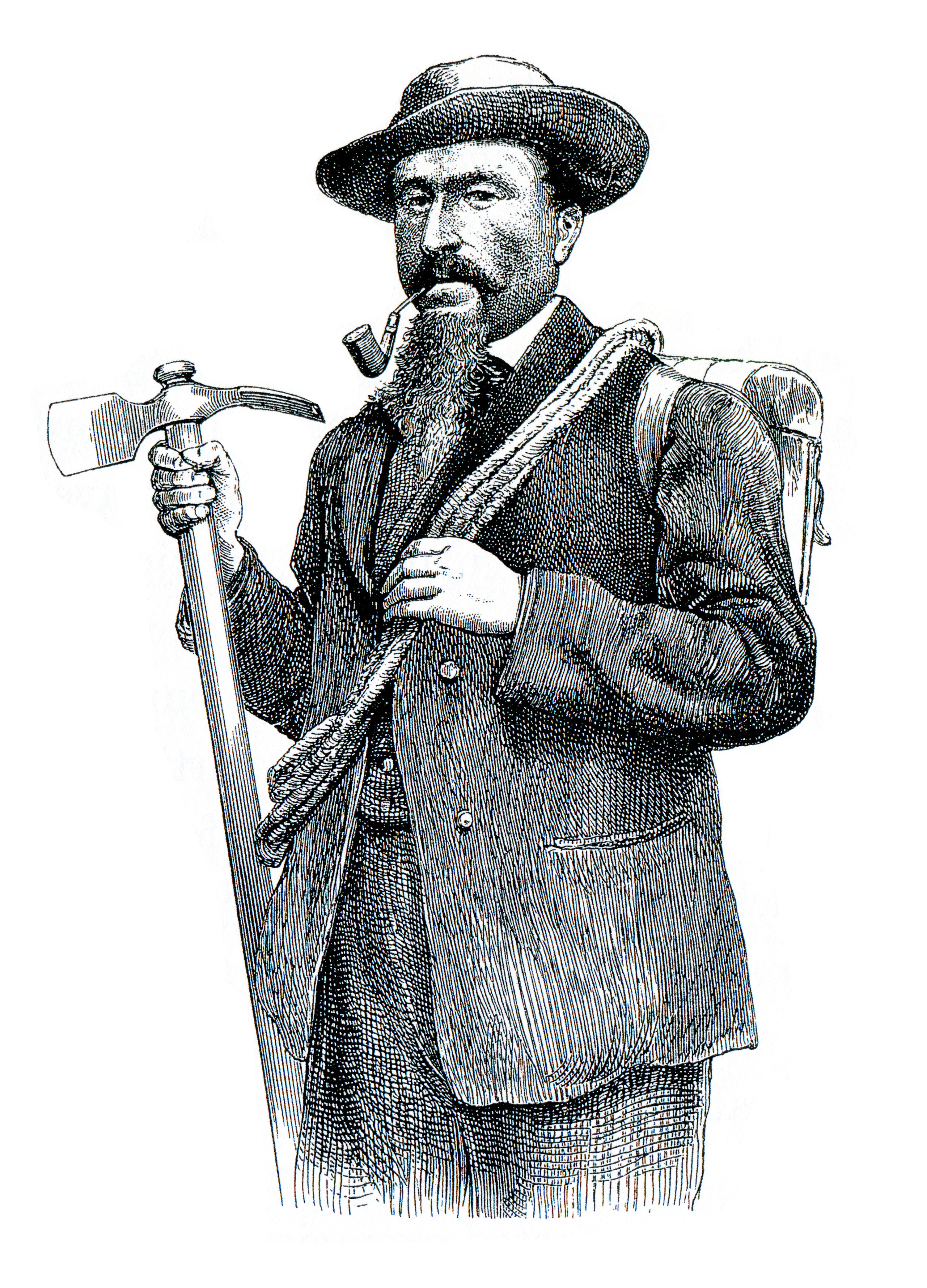 Image on page 222 of Scrambles amongst the Alps